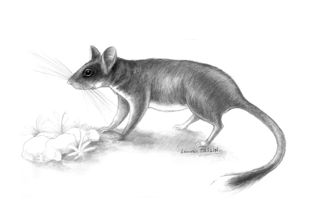 Hypnomys by L.Meslin